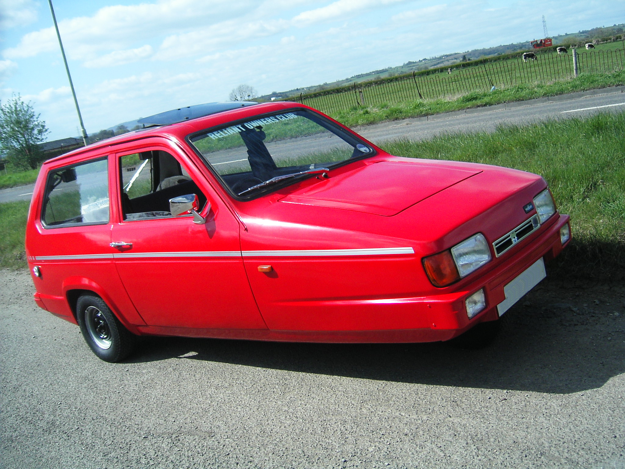 My 1994 Reliant Robin Mk2 SLX